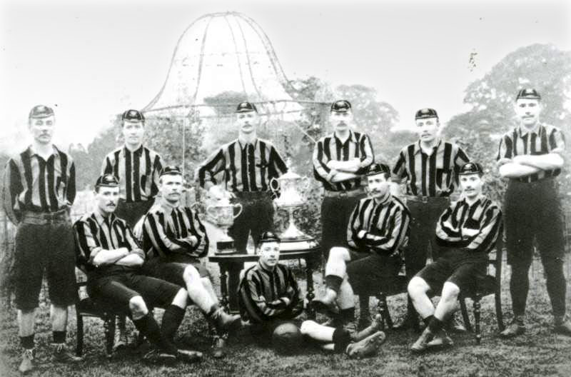 The Wolverhampton Wanderers team that won the FA Cup. The team poses with the trophy (left).